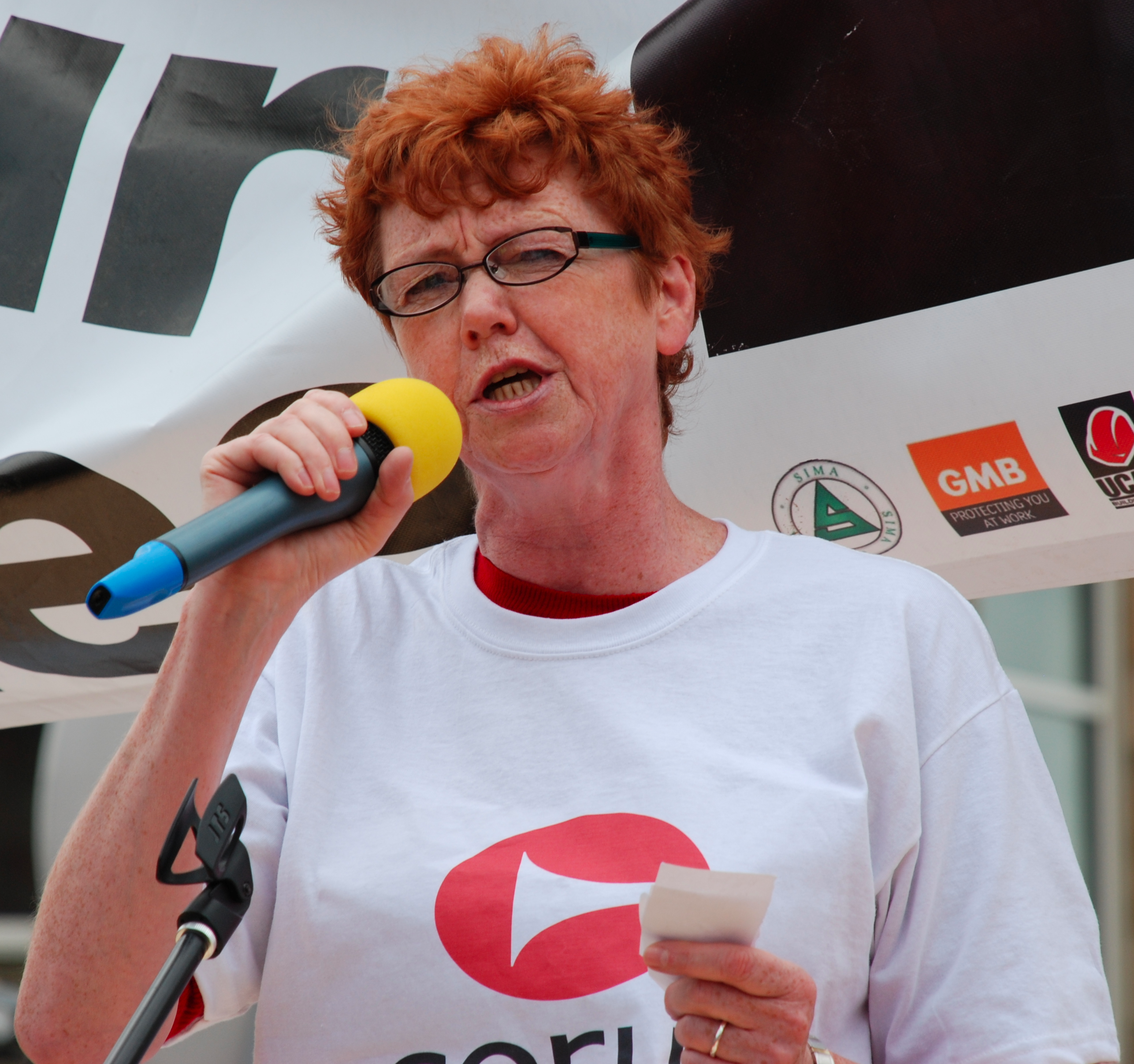 Vera Baird QC MP, Labour Member of Parliament for Redcar and Solicitor-General of England and Wales, at 'Save Our Steel' March in Redcar.